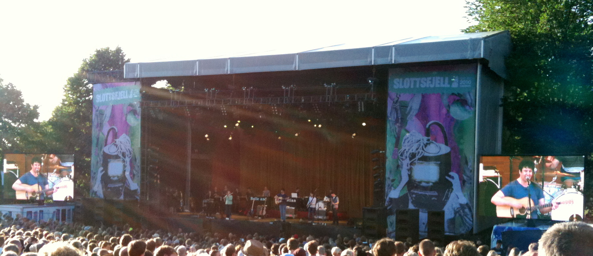 Belle & Sebastian live at Slottsfjellfestivalen 2010 in Tønsberg, Norway